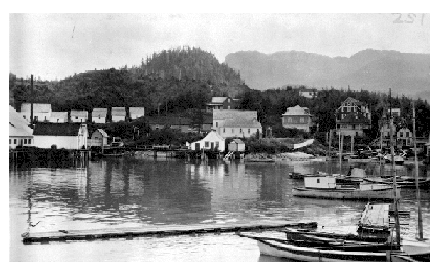 Photo taken September 1915 Photographer Unknown BC Archives H-07308 [1]